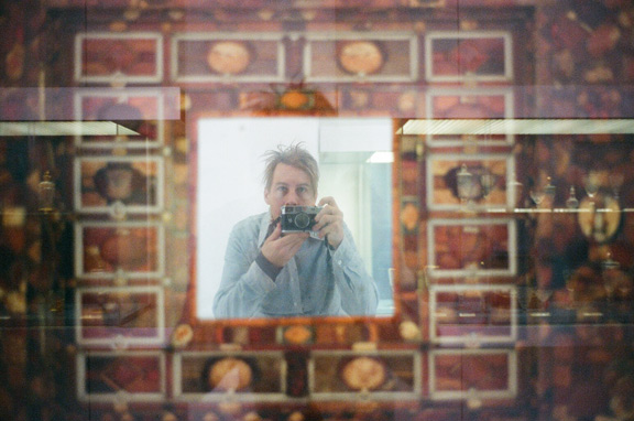 Self-portrait by John Vanderslice